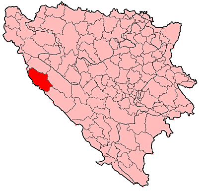 Municipality of Bosansko Grahovo in Bosnia and Herzegovina